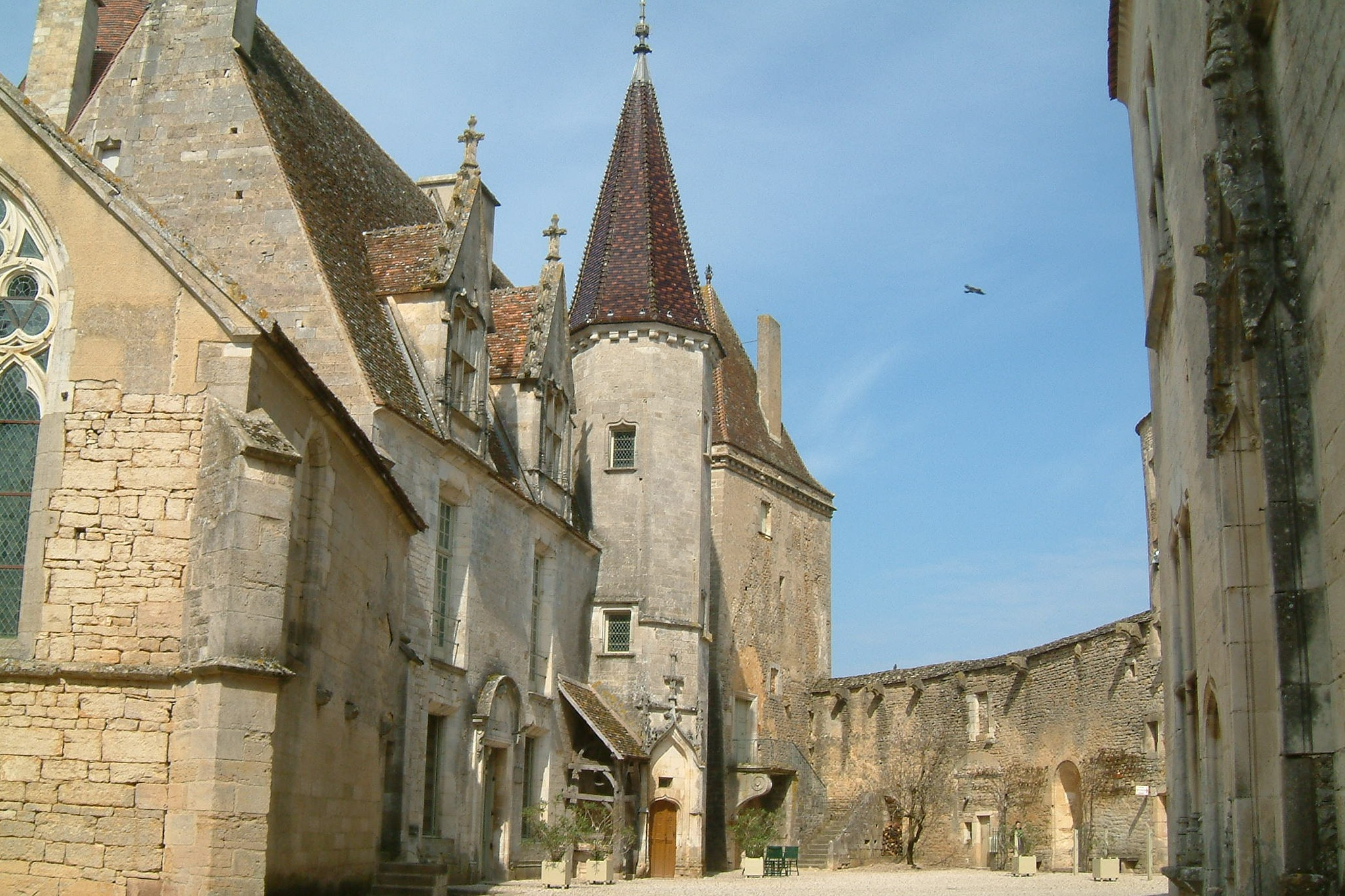 Chateauneuf castle, Chateauneuf, Bourgogne, France